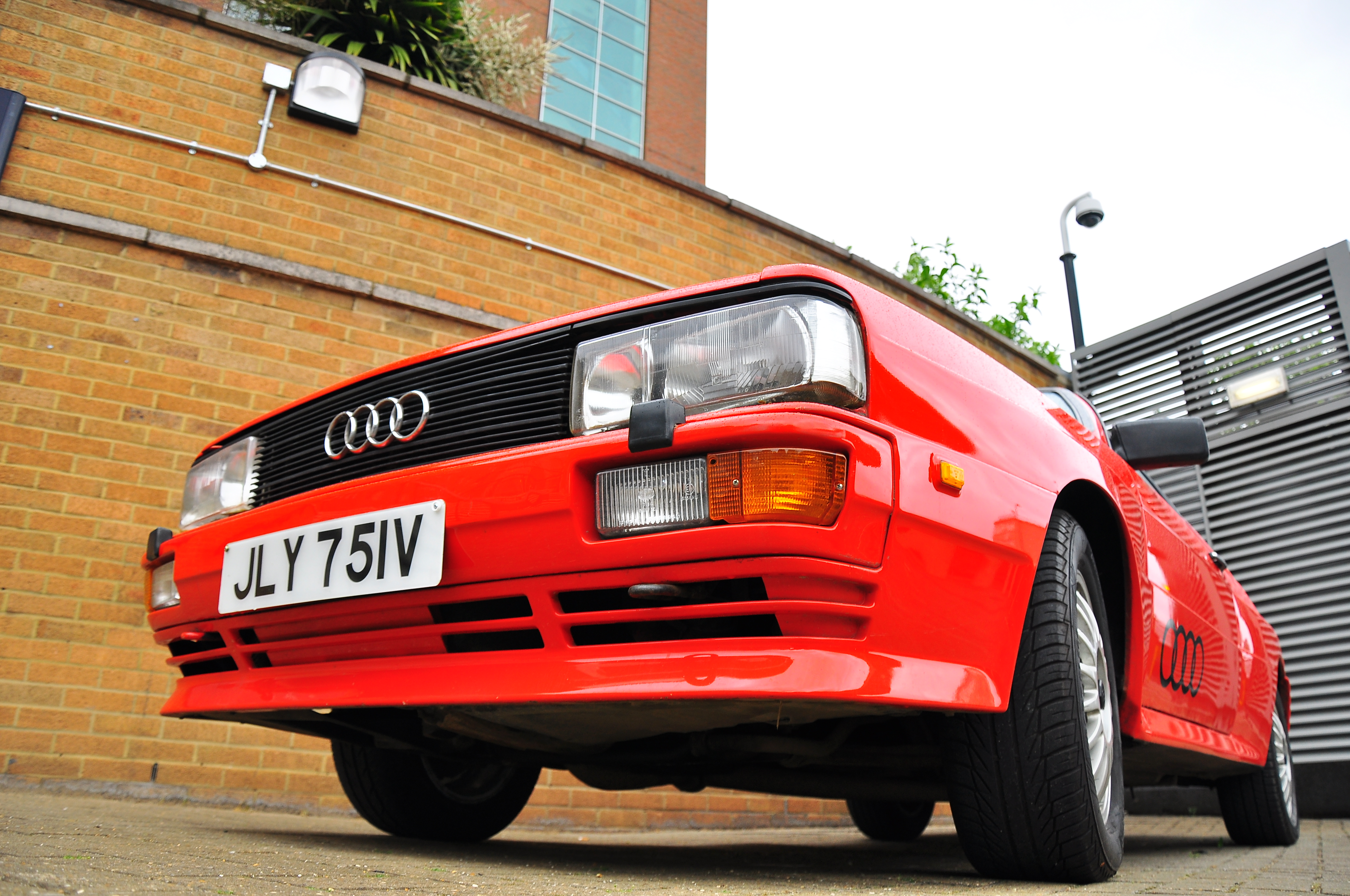 The Audi Quattro from the BBC series Ashes To Ashes in the car park of BBC Television Centre in Shepherd's Bush, London